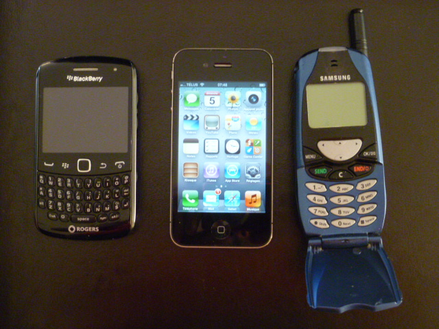 Mobile phones